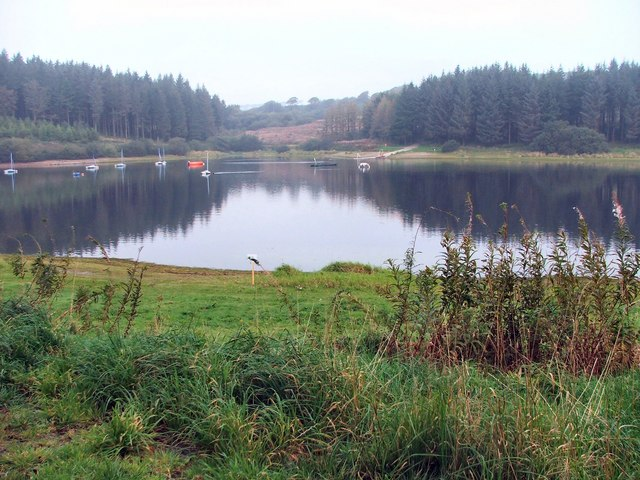 Wistlandpound Reservoir from the south bank Wistlandpound Reservoir. Completed in 1956, the earth embankment reservoir holds up to 1,550 megalitres (341 million gallons) and covers an area of 40 acres (160,000 m2). Situated close to Exmoor National Park, and managed jointly by The Forestry Commission and The South West Lakes Trust, Wistlandpound is a popular recreation area, with bird watching, trout fishing, as well as boating and nature walking among the most popular activities.